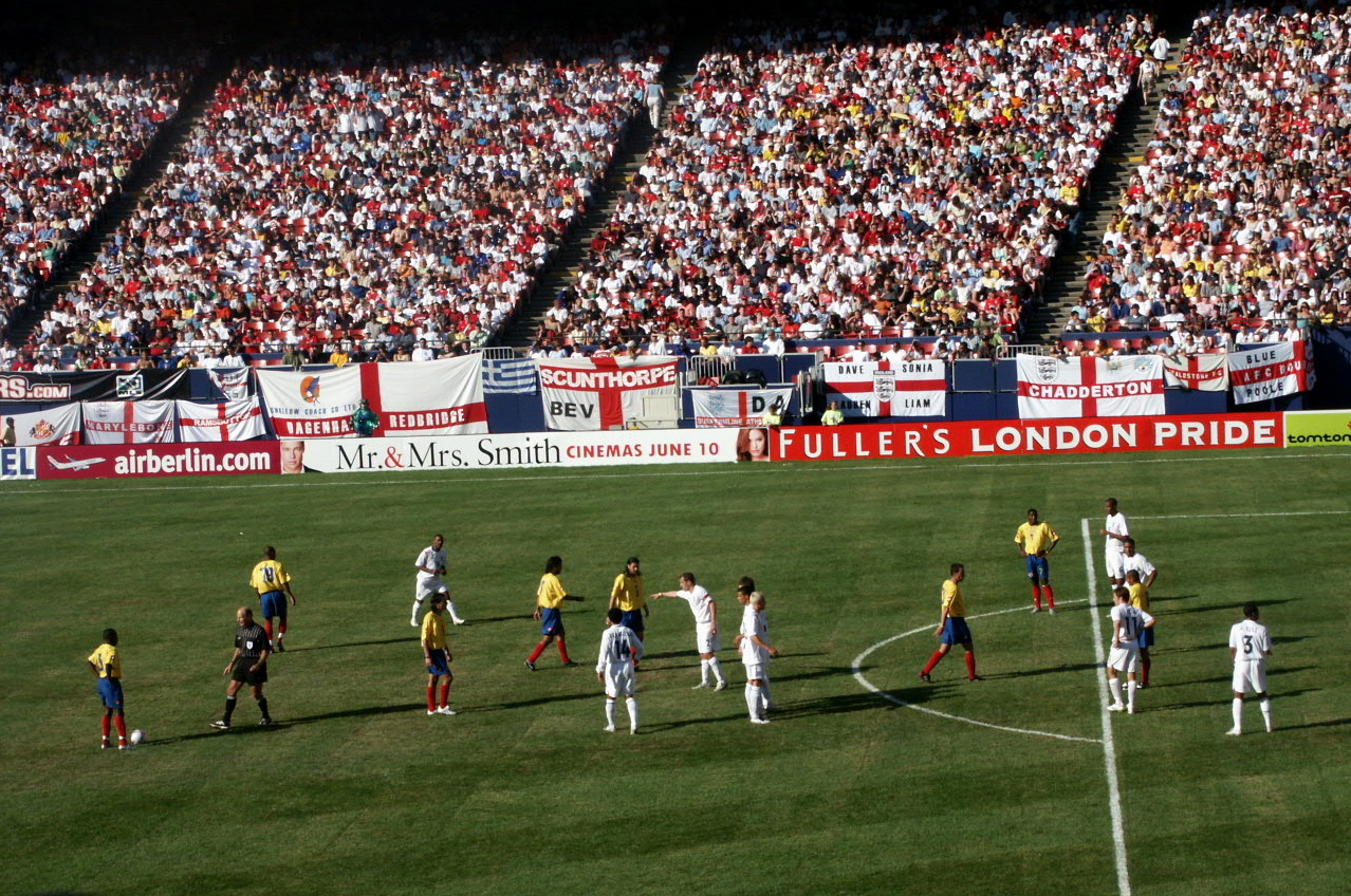 Colombia vs England. International Friendly 05/31/05. Giants stadium, Rutherford, NJ